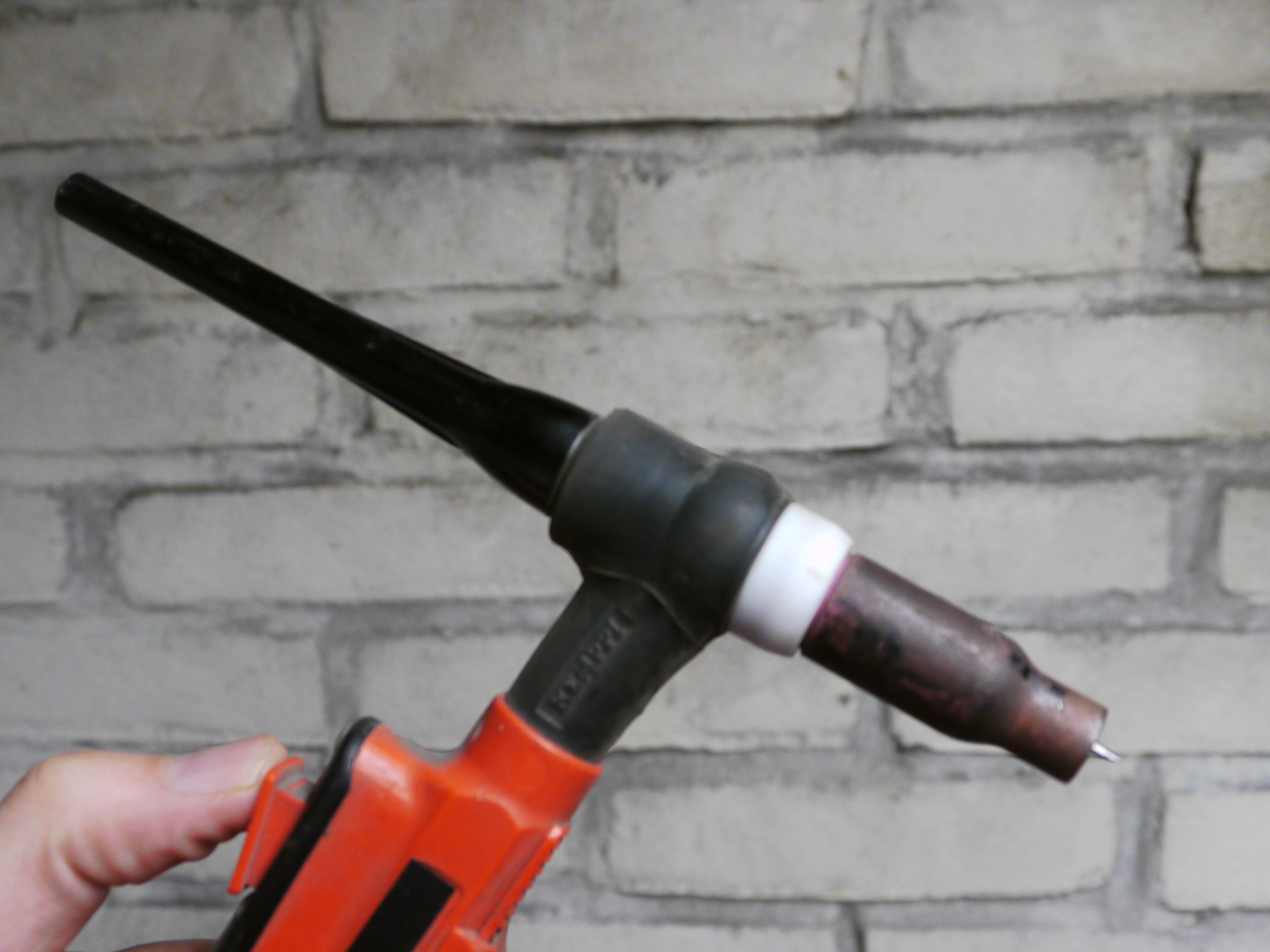 TIG welding torch